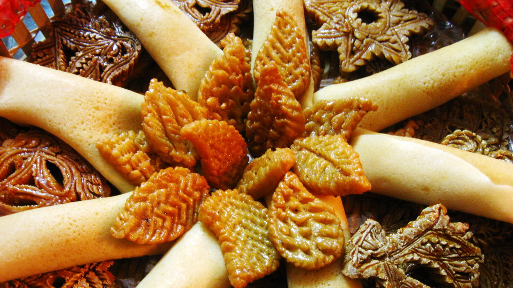 Three varieties of pithas- Pakon, Pati Shapta and Bharandash, decorated to be sent as a gift to the bride's house in Gaye Holud ceremony.